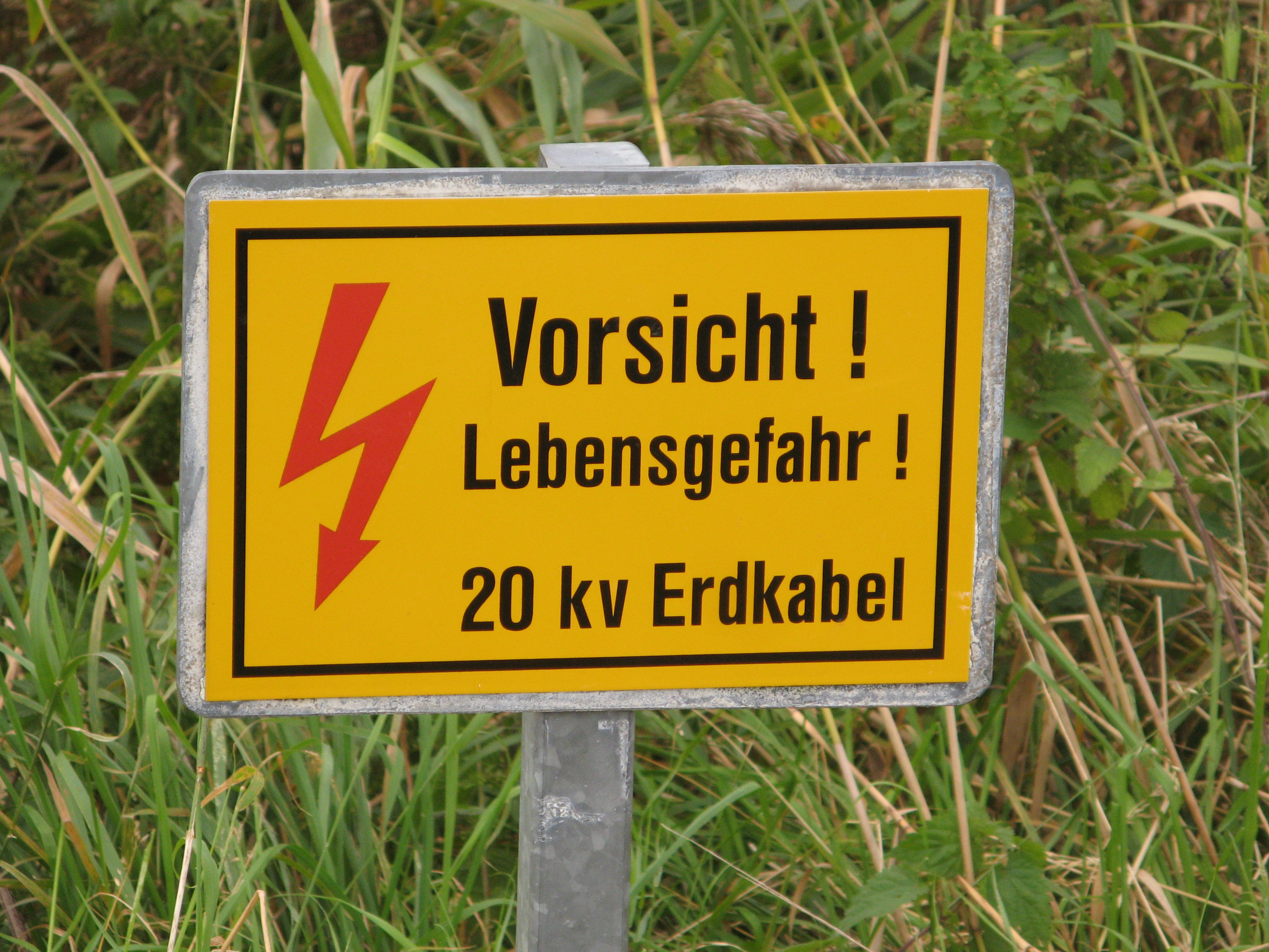 An old warning sign of an underground cable close to a wind turbine in Hellschen-Heringsand-Unterschaar.